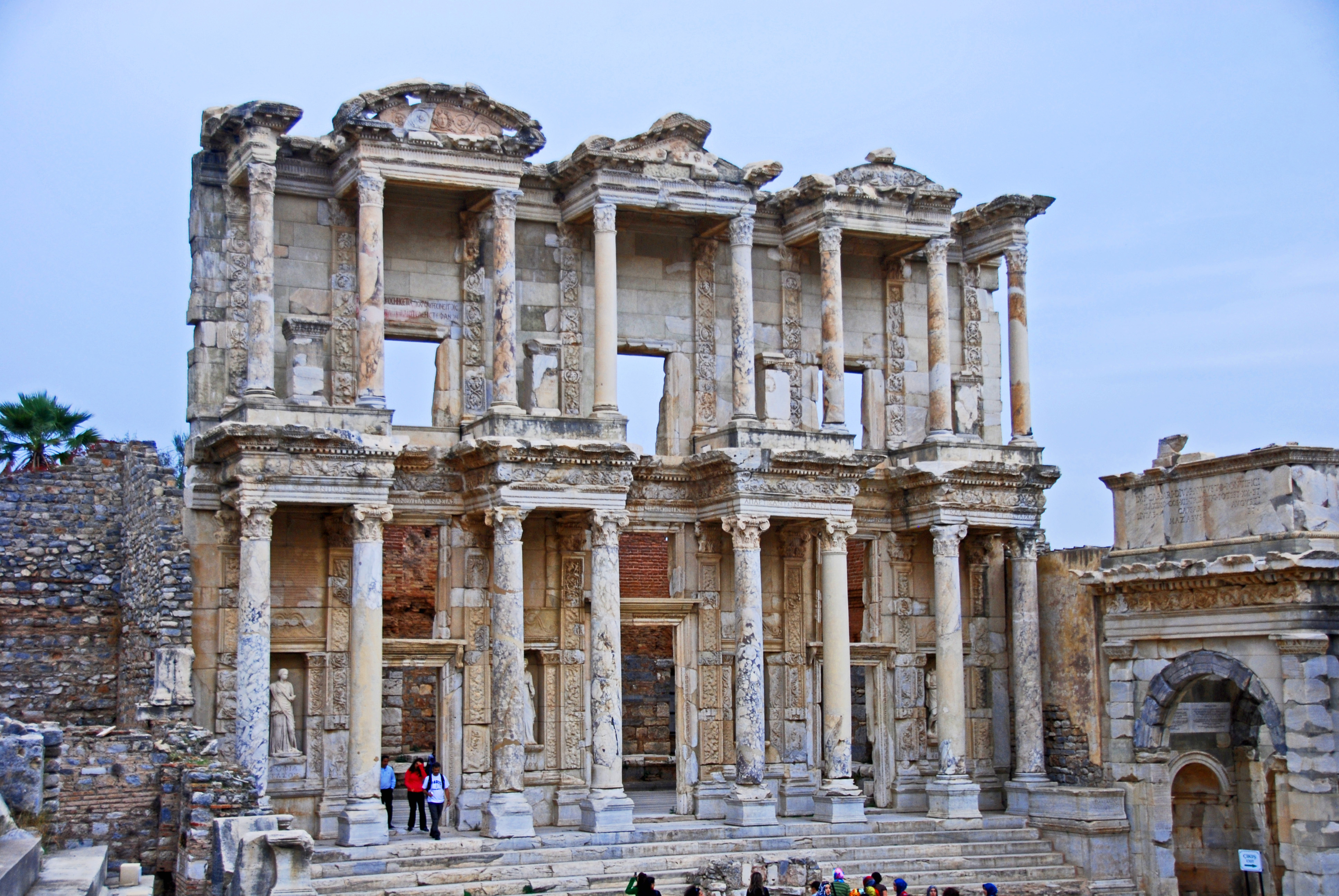 Ephesus, Turkey